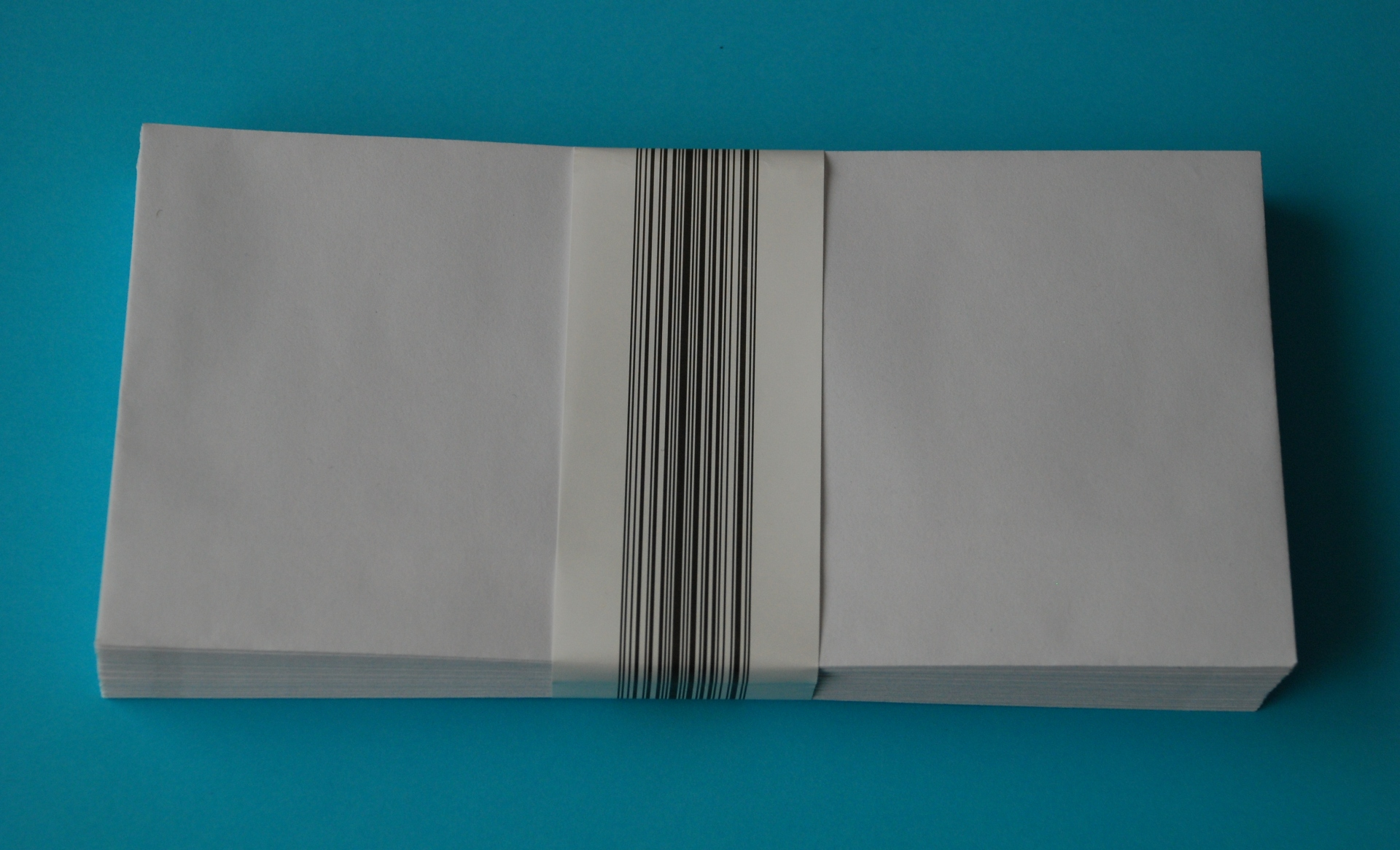 tied envelopes